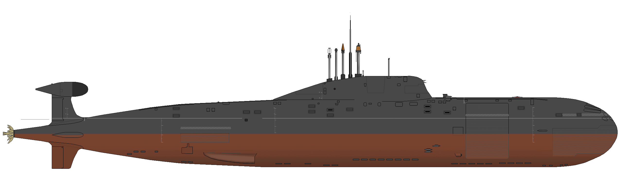 Drawing of the 971-U subtype of the russian Akula class submarines (Boats K-152, K-157, K-295).